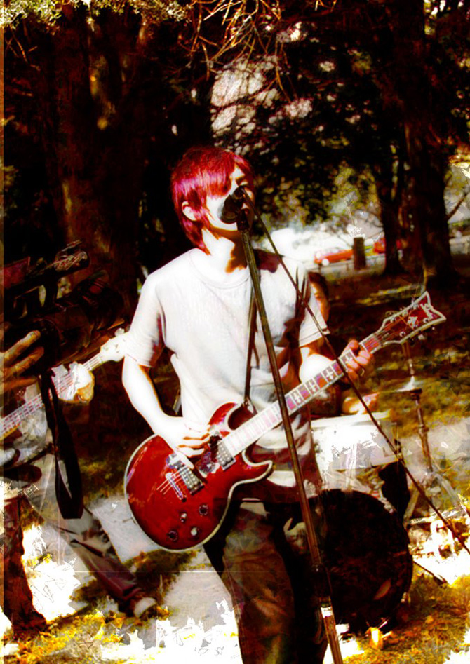 Endy Chow 17June2012